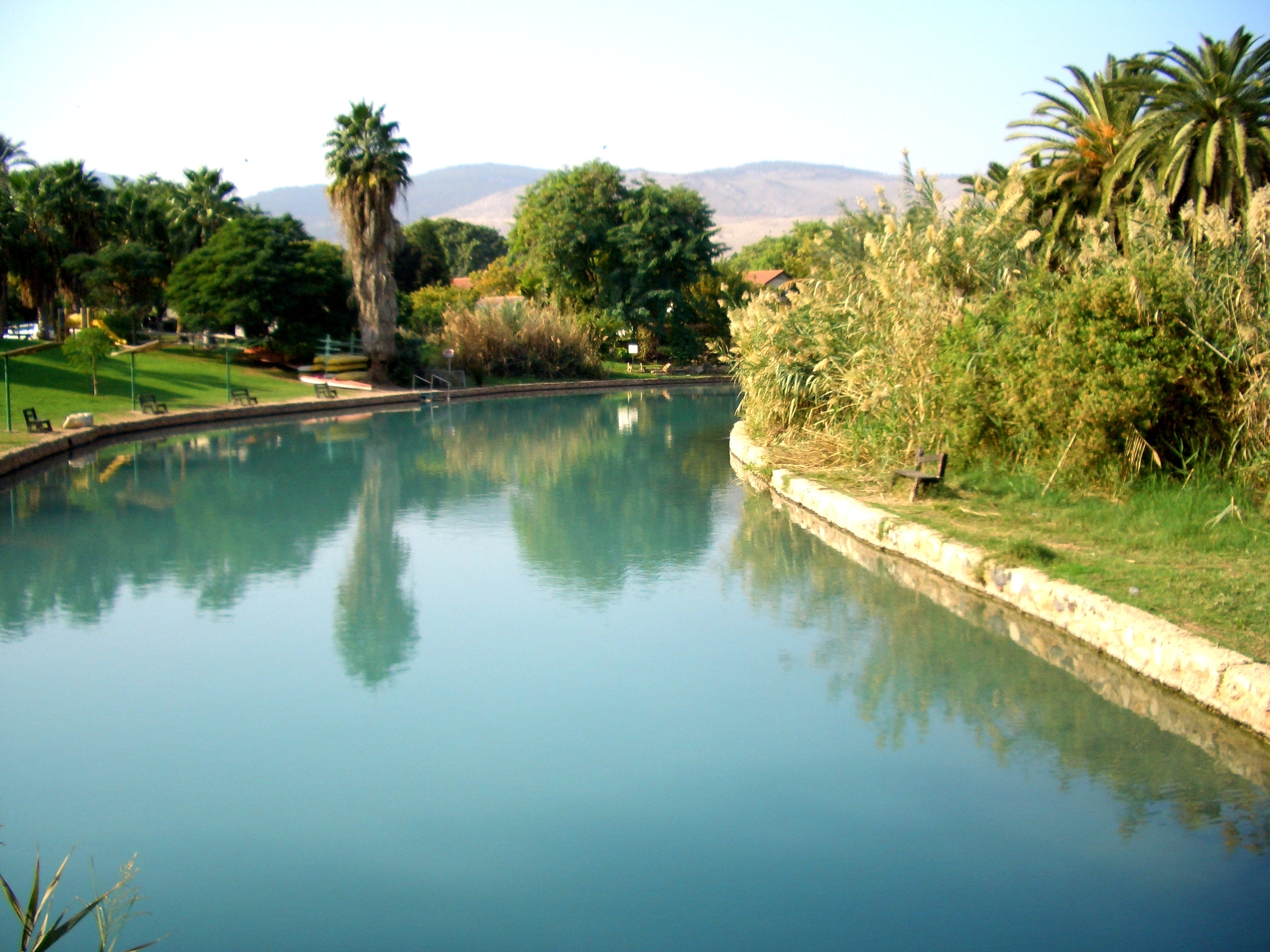 Geography of Israel